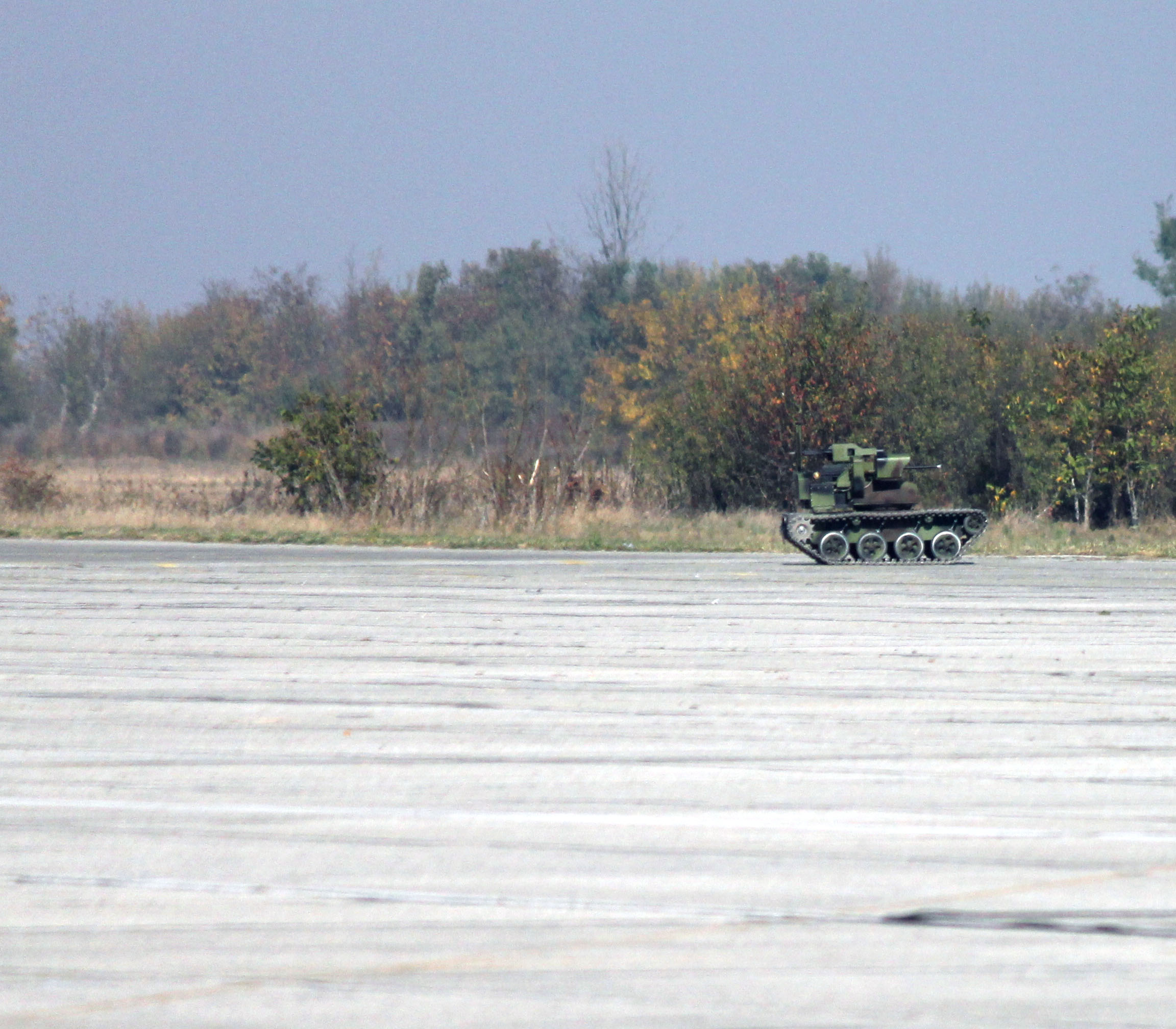 Miloš tracked armed robot platform of Serbian Air Force on display at Batajnica Air Base during the Belgrade liberation day celebration and "Sloboda 2017" military exercise. Српски (ћирилица): Наоружани робот гусеничар Милош Војске Србије на војном аеродрому Батајница током војне вежбе Слобода 2017 у оквиру обележавања годишњице ослобођења Бегограда у 2. светском рату.